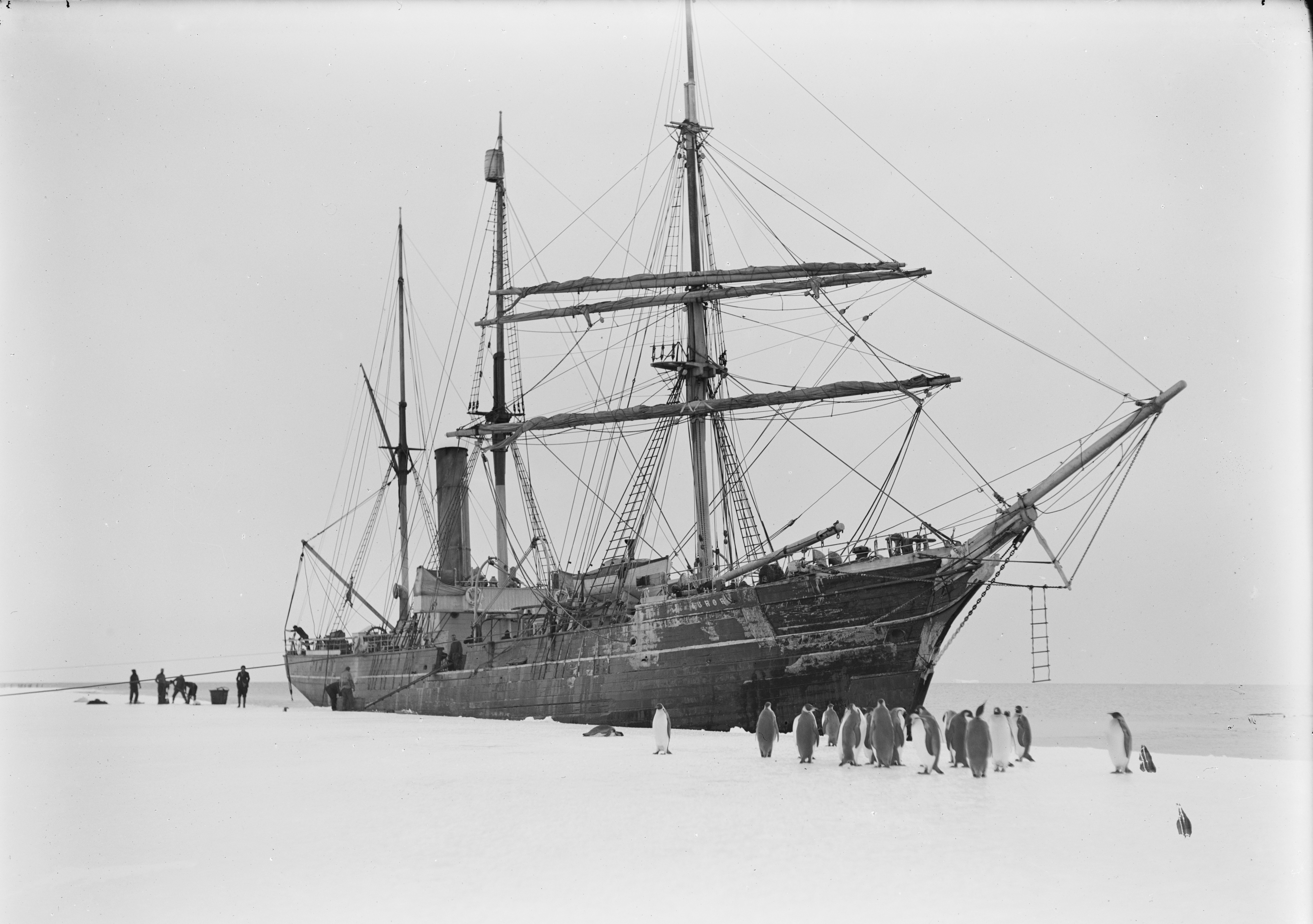 The Aurora anchored to floe-ice off the West Base during the Australasian Antarctic Expedition of 1911–1914